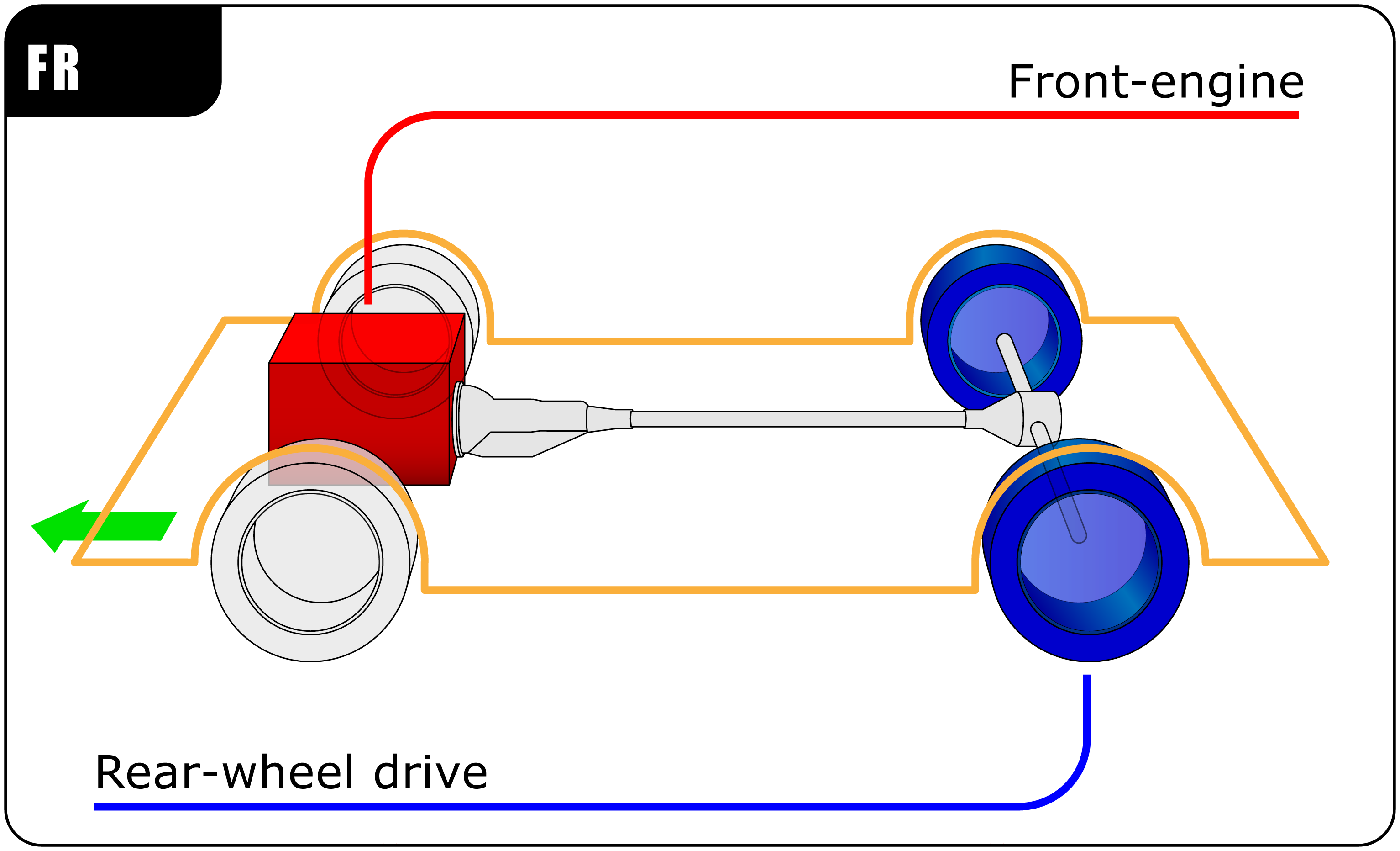 Vehicle engine and drive wheel placement diagrams (German versions coming soon)